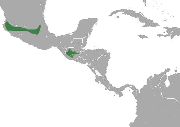 Saussure's Shrew (Sorex saussurei) range